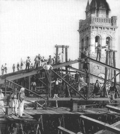 Construction of Shkoder Cathedral